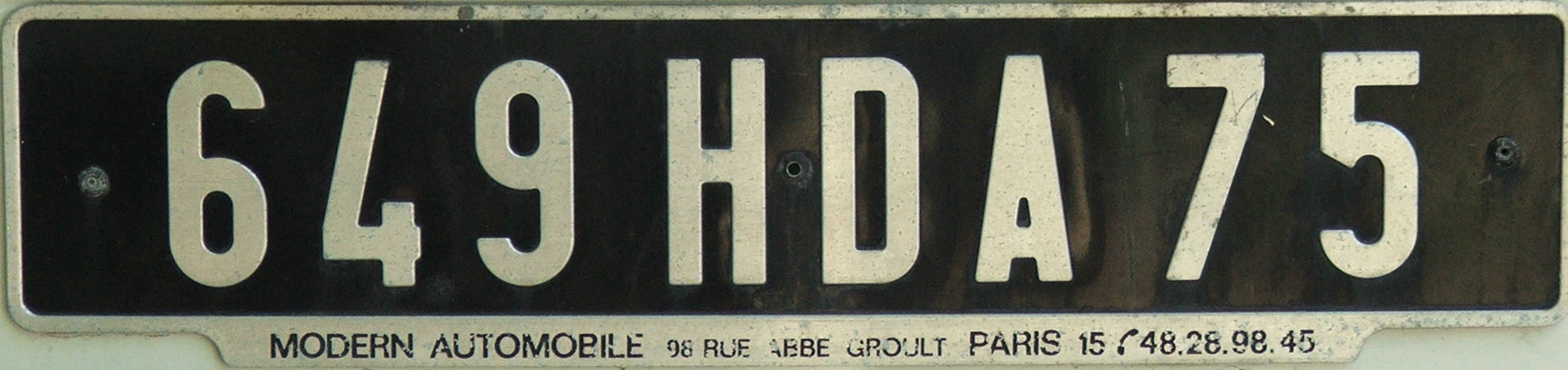 Old vehicle licence plate from France, black background as seen in 2007, "75" stands for Paris department.